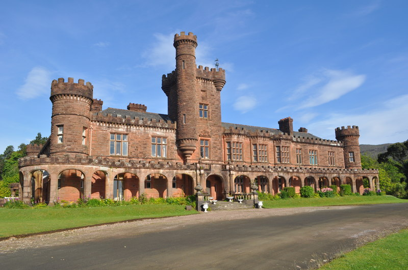 Kinloch Castle, near to Kinloch, Rum, Great Britain